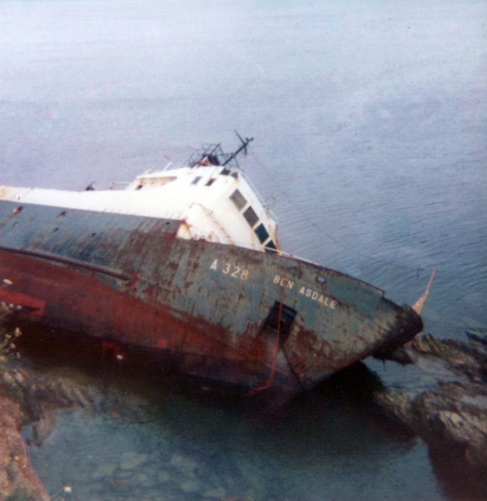 The trawler Ben Asdale, aground in Cornwall, some time in the 1970s. Colour-improved version of File:Ben Asdale.tif.